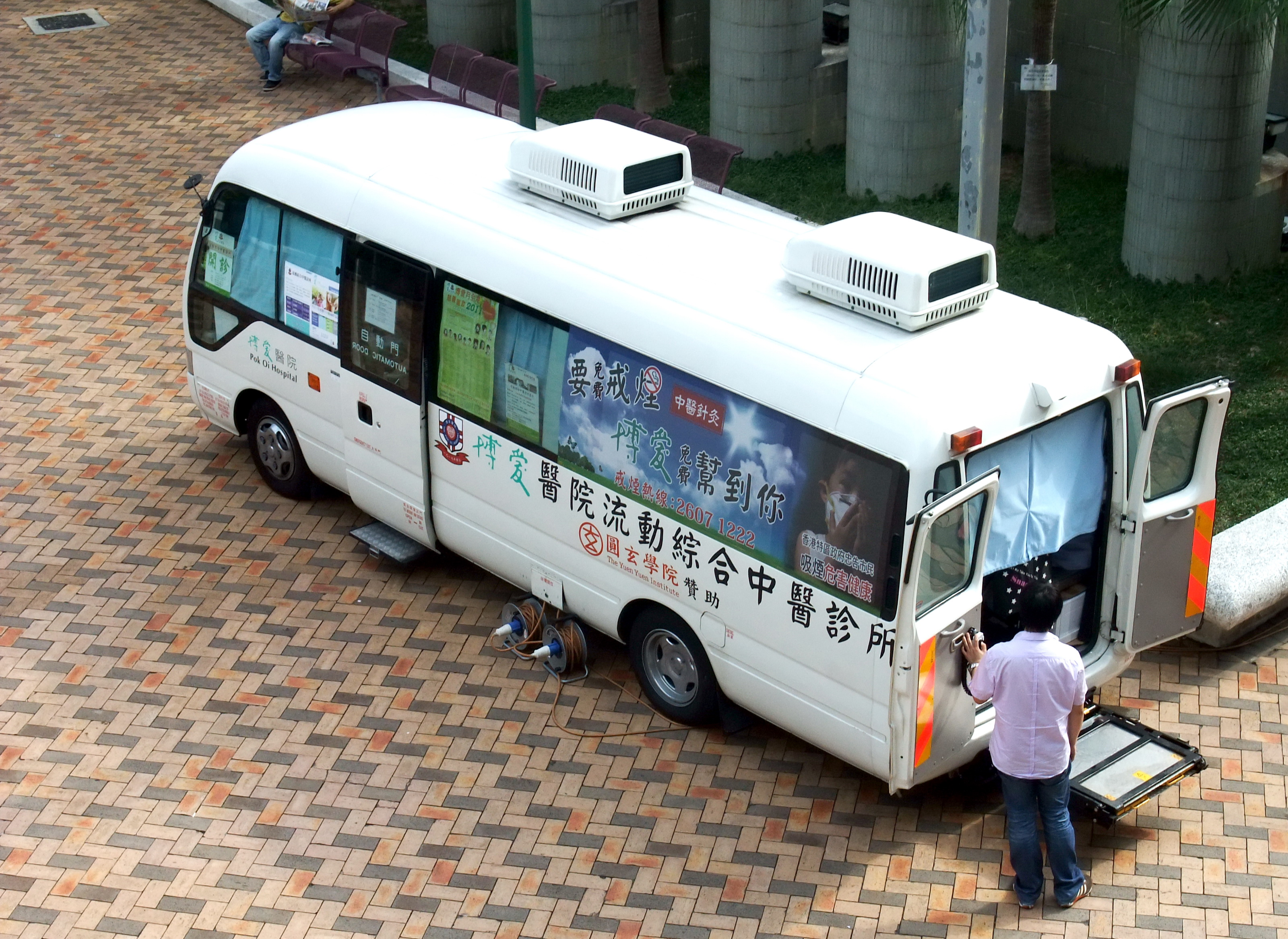 Pok Oi Hospital Chinese Medicine Mobile Clinic